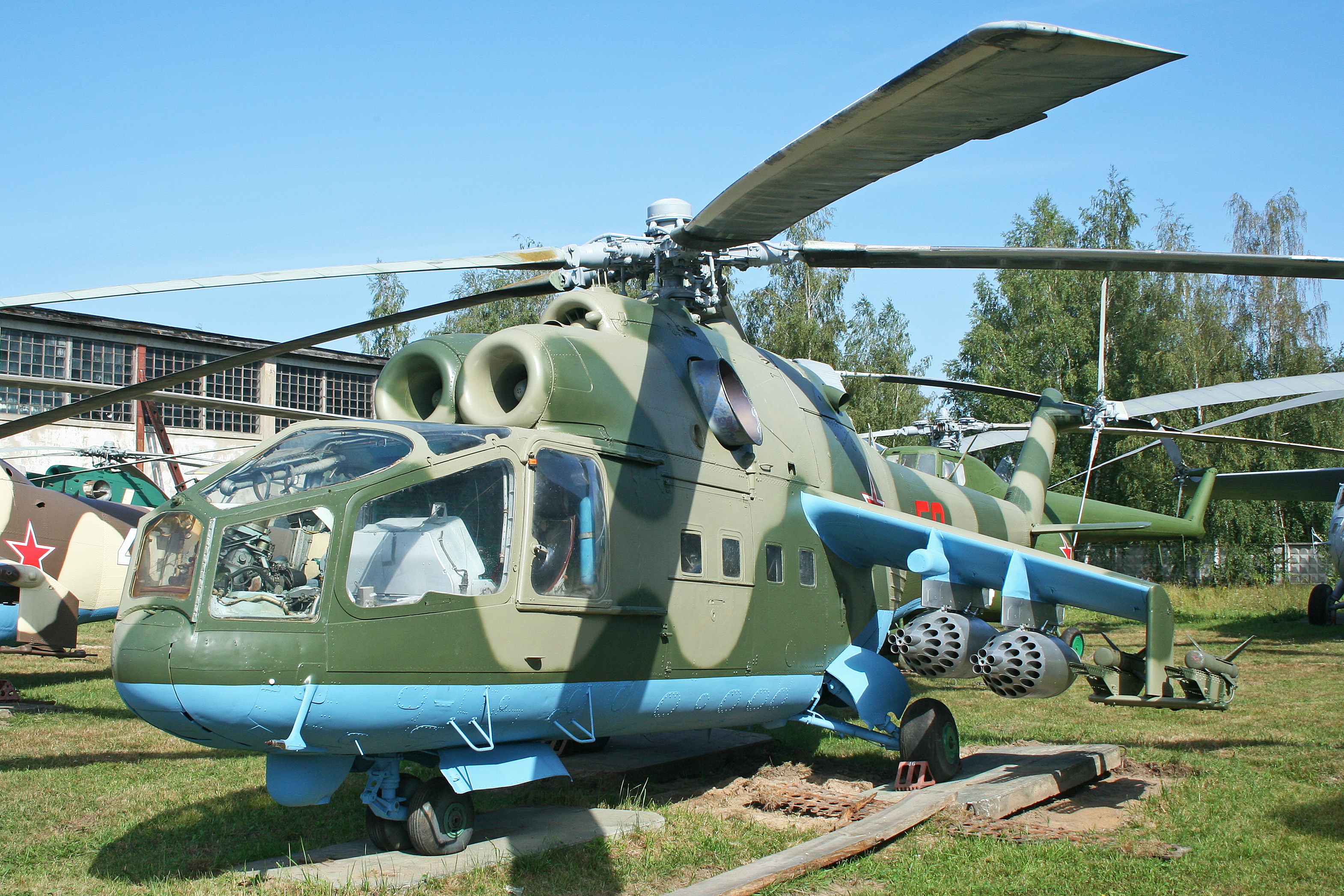 This is a very early Hind from before they became pure gunships. Previously marked as '50 blue' c/n 2201201. On display outside at the Russian Air Force Museum. Monino, Russia. 13-8-2012